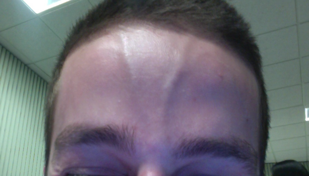 supratrochlear arteries